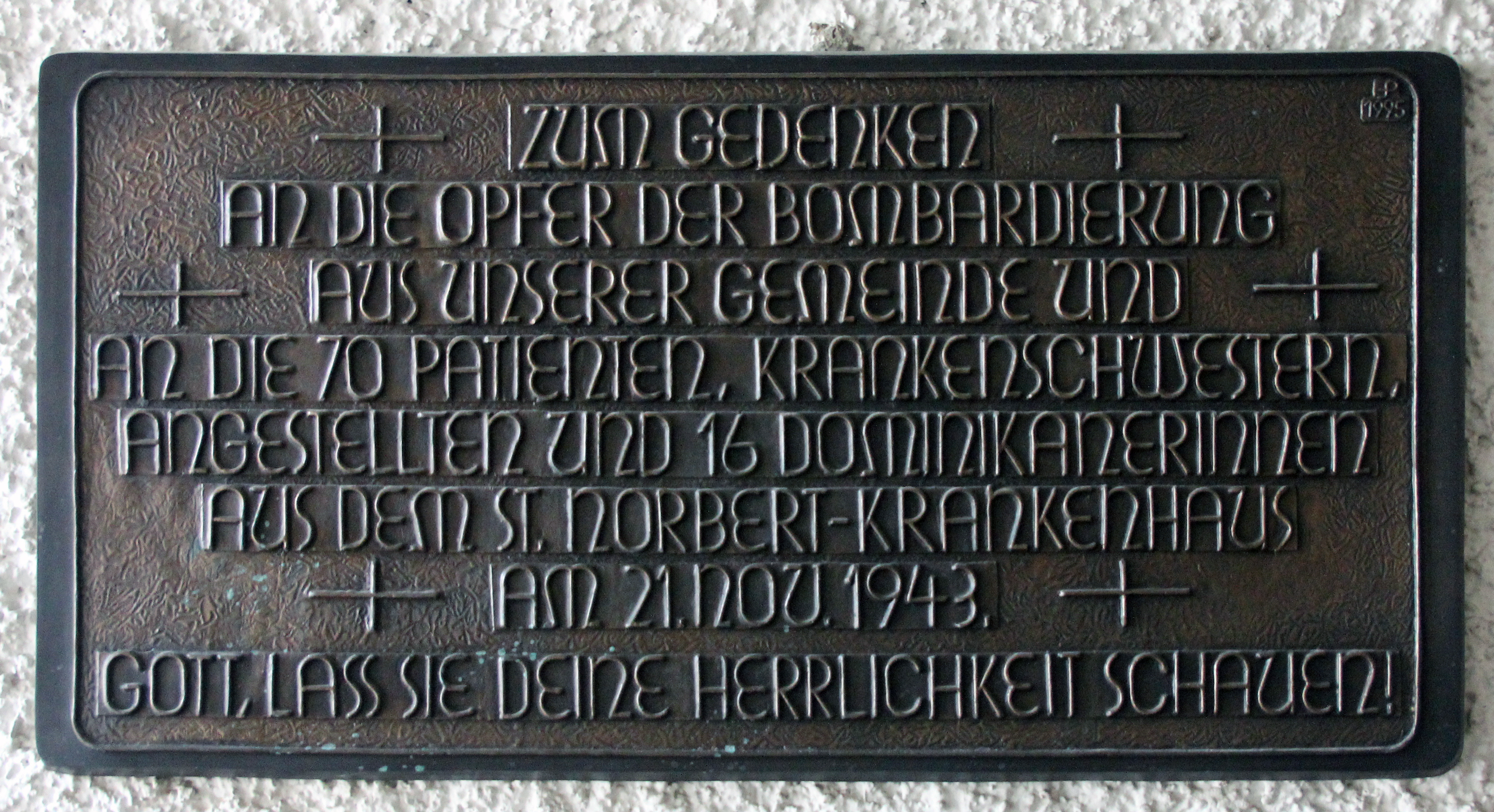 Memorial plaque, St, Norbert Krankenhaus, Dominicusstraße 15-17, Berlin-Schöneberg, Deutschland